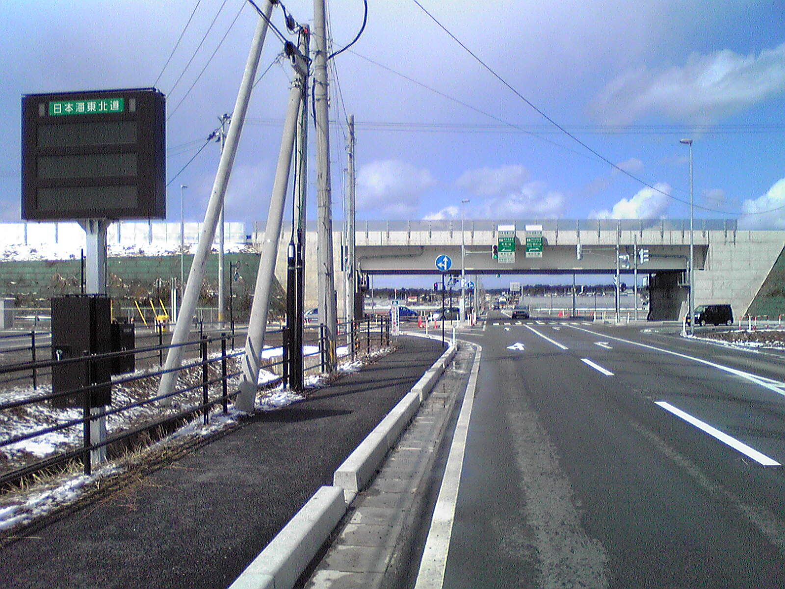 Kamihayashi-Iwafuneko Interchange, Nihonkai-Tohoku Expwy, Japan. It took a picture from the east side of the interchange.